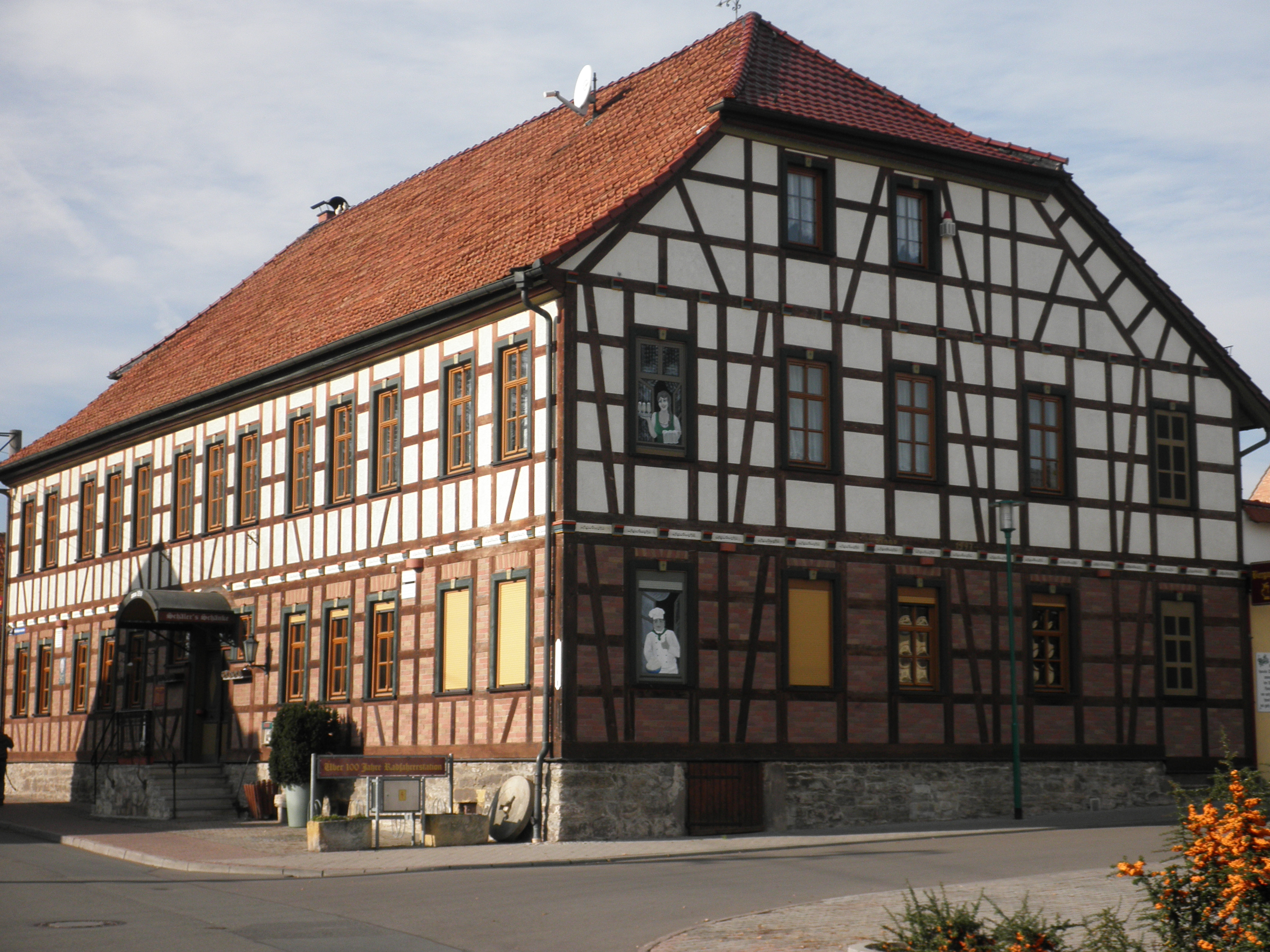 Guesthouse in Walschleben in Thuringia